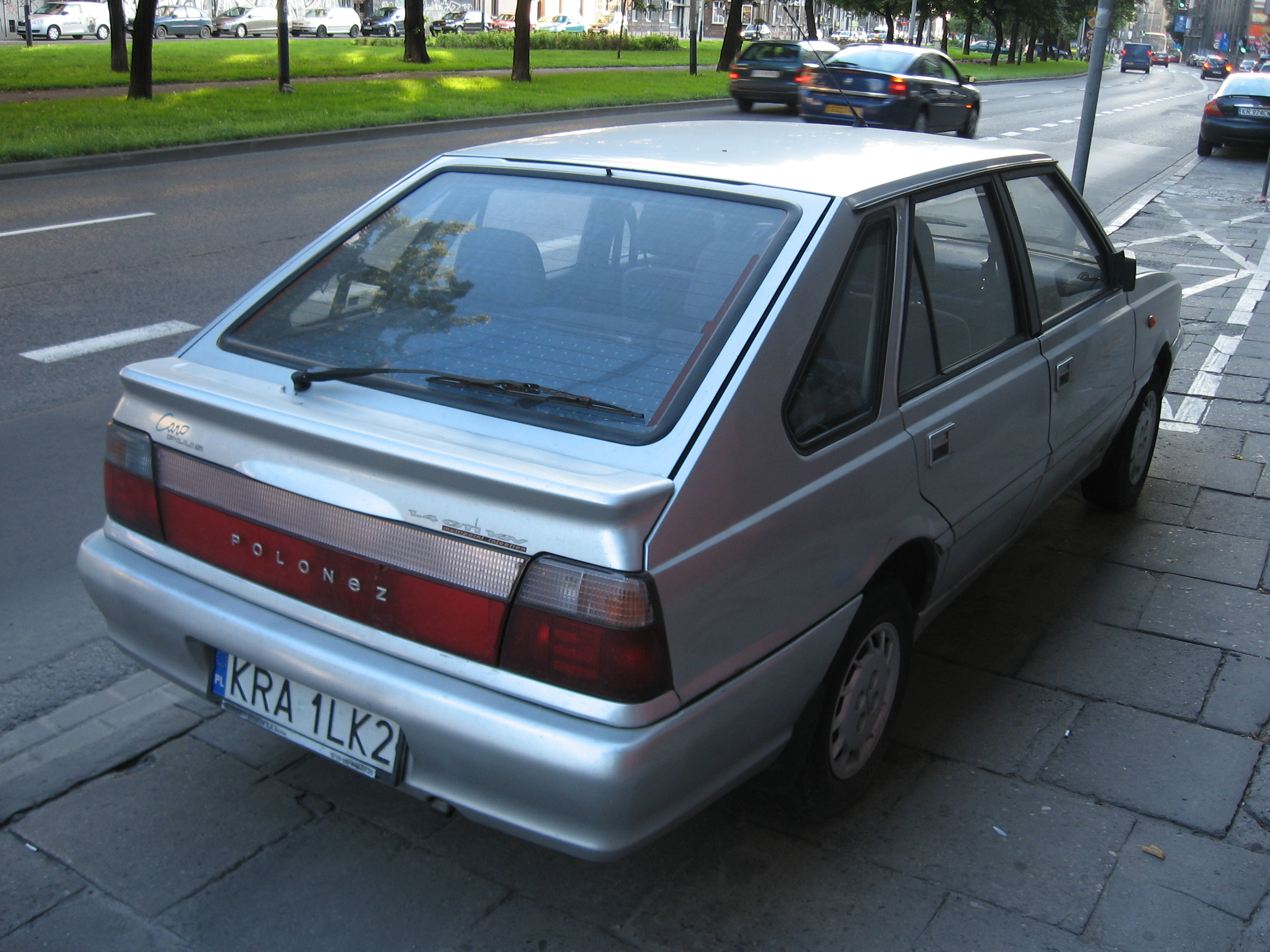 Daewoo-FSO Polonez Caro Plus 1.4 GTI 16V multipoint injection car on Słowackiego avenue in Kraków, Poland.